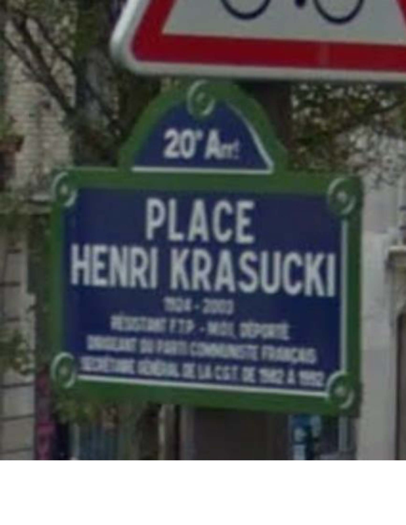 Historic Marker honoring Henri Krasucki